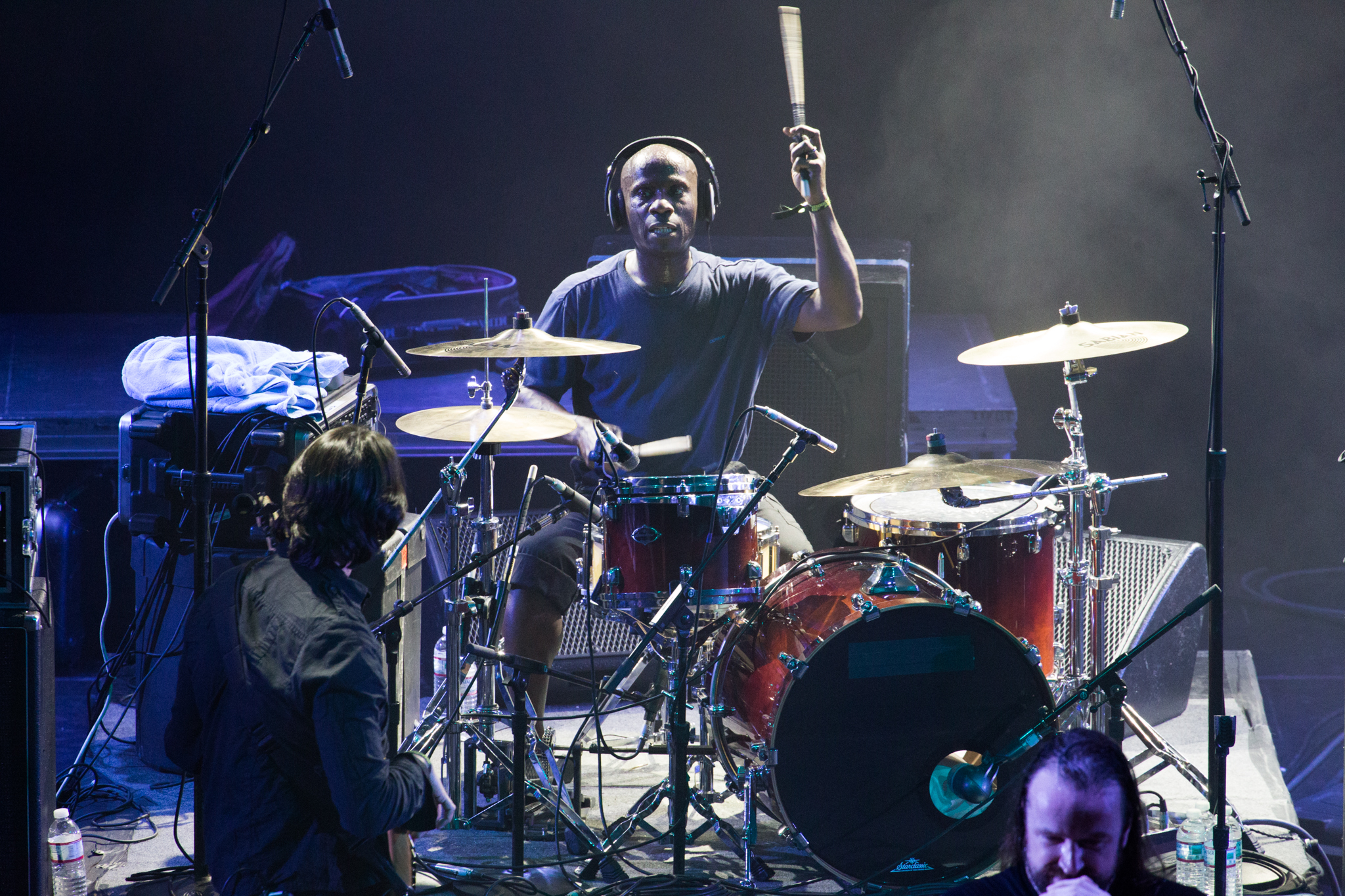 Threshold performing at 70.000 tons of metal, january 2015